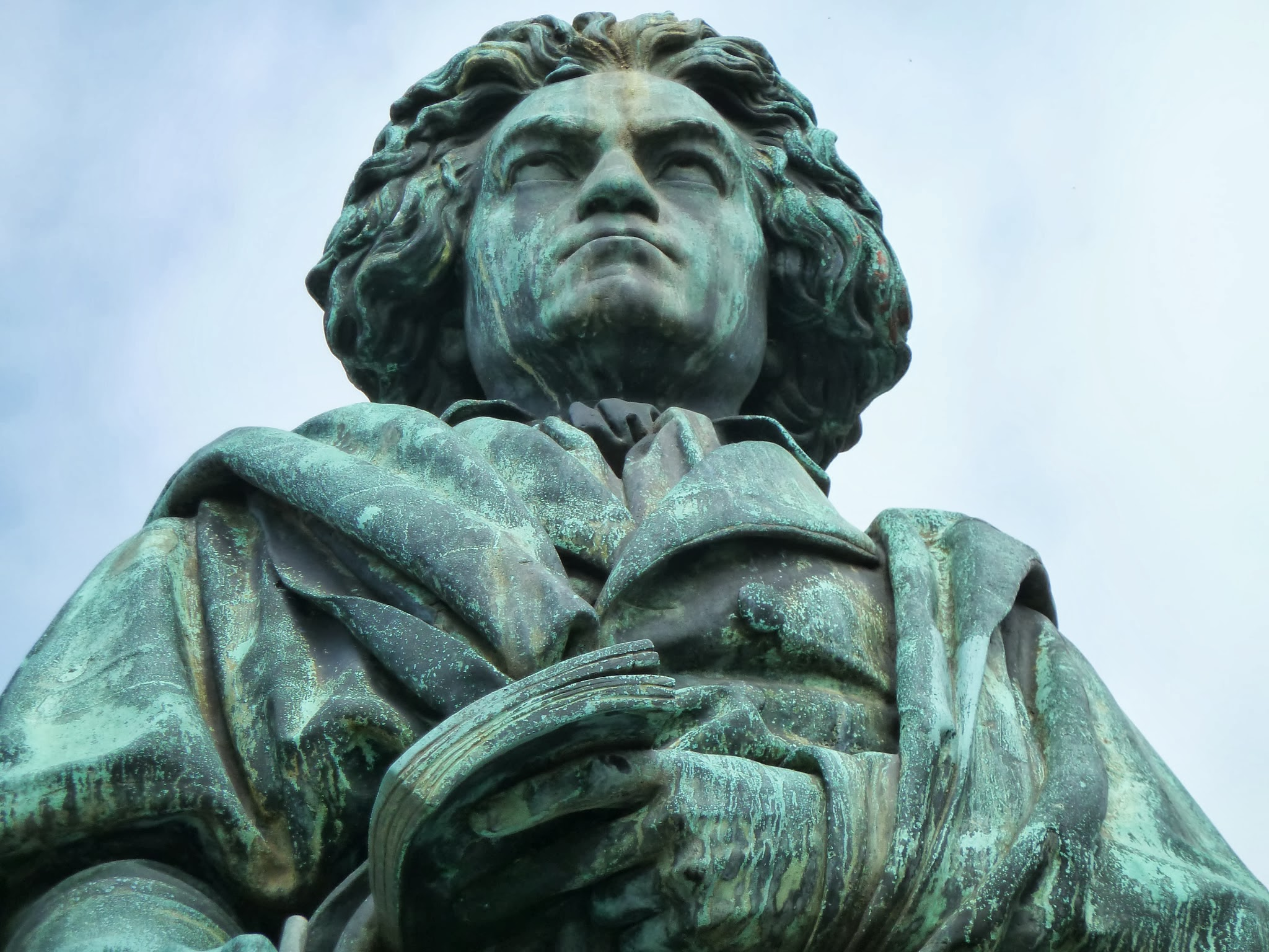 the statue of Ludwig van Beethoven in BonnThis statue in bronze is the work of Ernst Julius Hähnel. Franz Liszt contributed financially and personally and organised concerts from which the funds were put towards the statue.